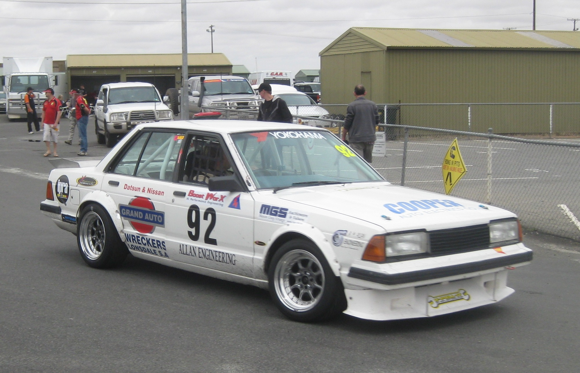 The Nissan Bluebird 910 of Adam Allan at Mallala Motor Sport Park in South Australia on 19 November 2011. Adam finished 6th in the Final of the 2011 Improved Production Nationals the following day.